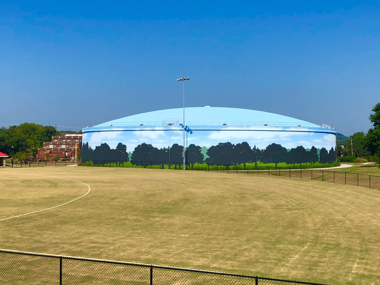 This huge tank holds sewage overflows occurring during storms. After the water recedes, the wastewater is pumped from the tank to the sewage treatment plant at a more manageable rate. West Park, Nashville,Tennessee.